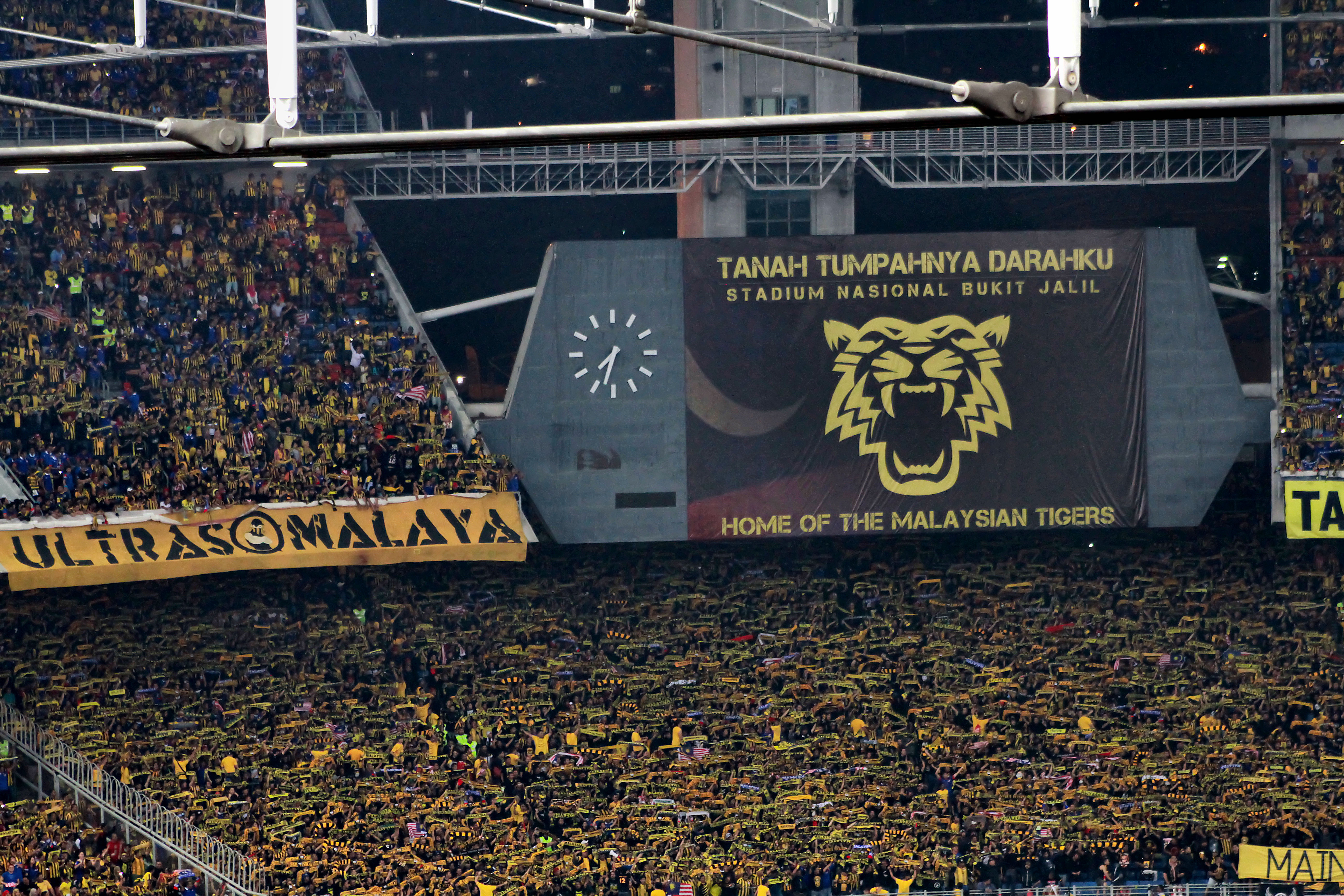 Scenes of Malaysian supporters during the second leg final match between Malaysia and Thailand in the 2014 AFF Championship at the Bukit Jalil National Stadium, Kuala Lumpur.